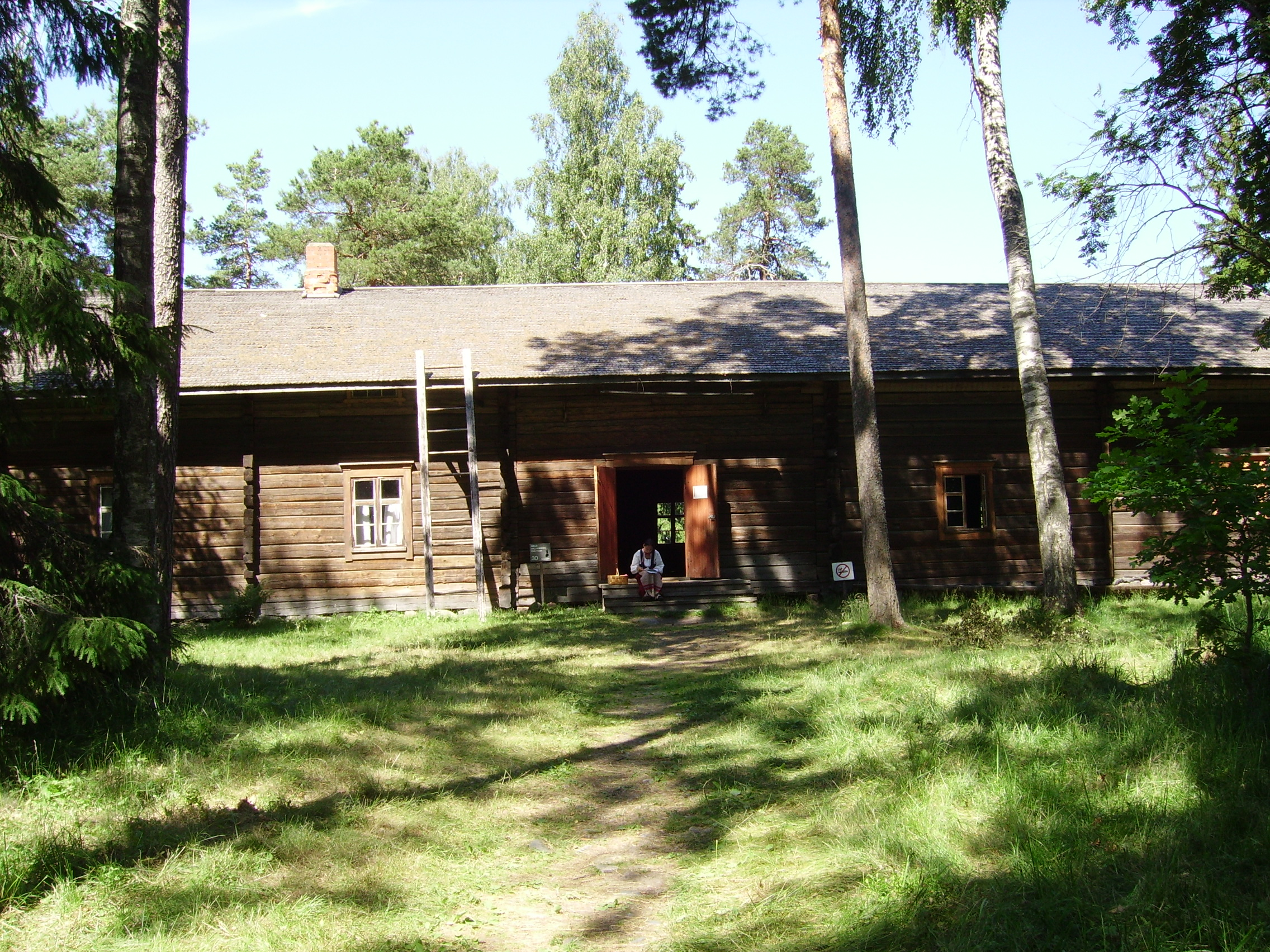 The main building of Halla Farm. The house was originally built in Hyrynsalmi, in North-Eastern part of Finland (Kainuu). The oldest part was built in the beginning 1900th century. Mr J.A. Heikkinen, a member of Finnish Diet lived in the house with his family. The main building of Halla was moved to the Open-Air Museum Seurasaari in Helsinki and opened there 1965.